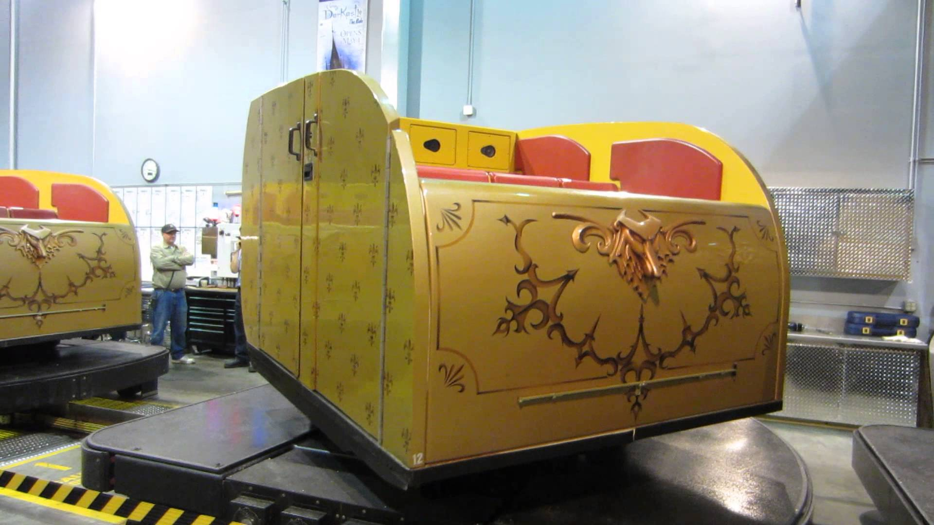 Ride vehicle for Curse of DarKastle at Busch Gardens Williamsburg.